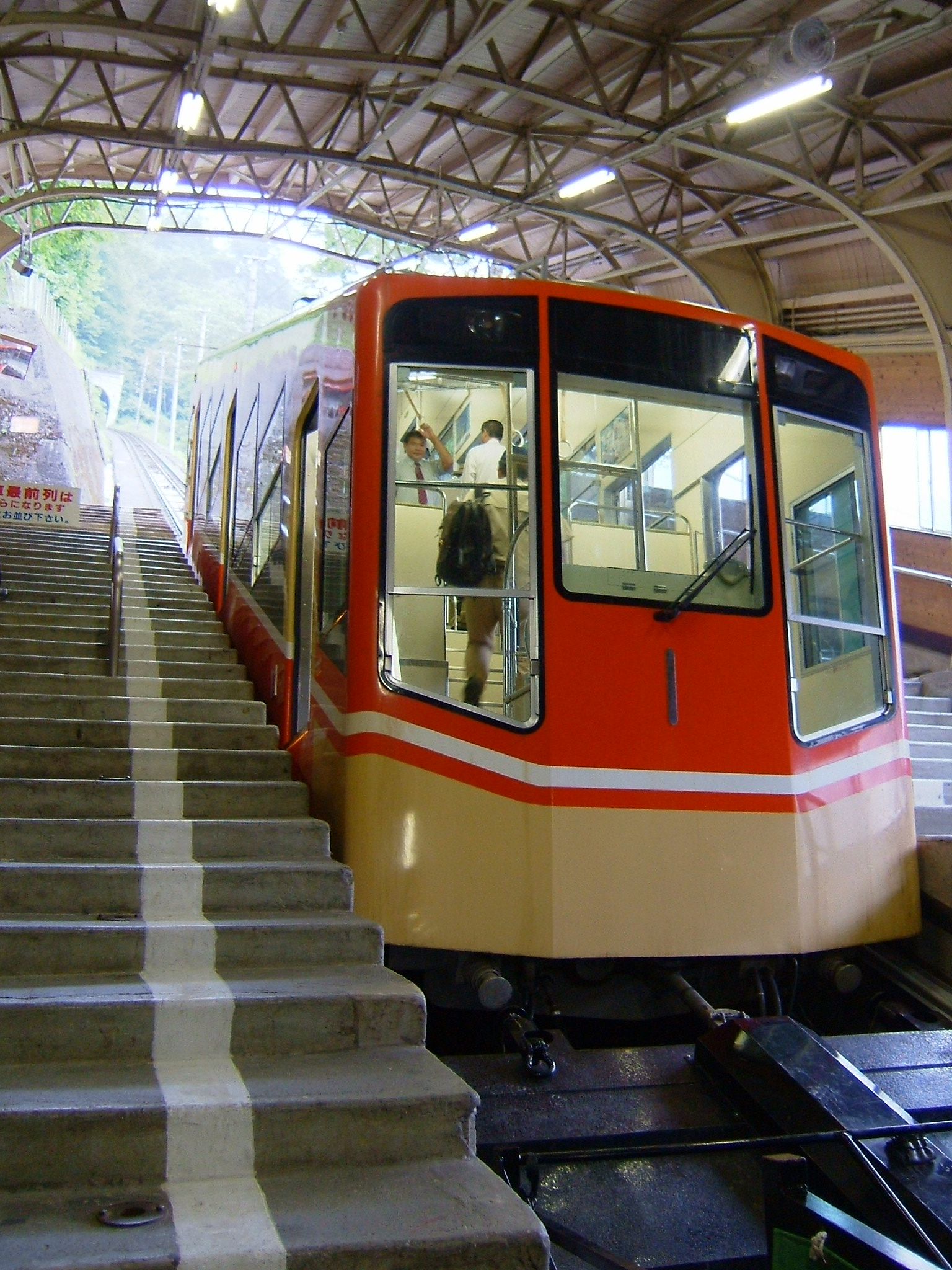 Vehicle of Tateyama Cable Car at Tateyama Station